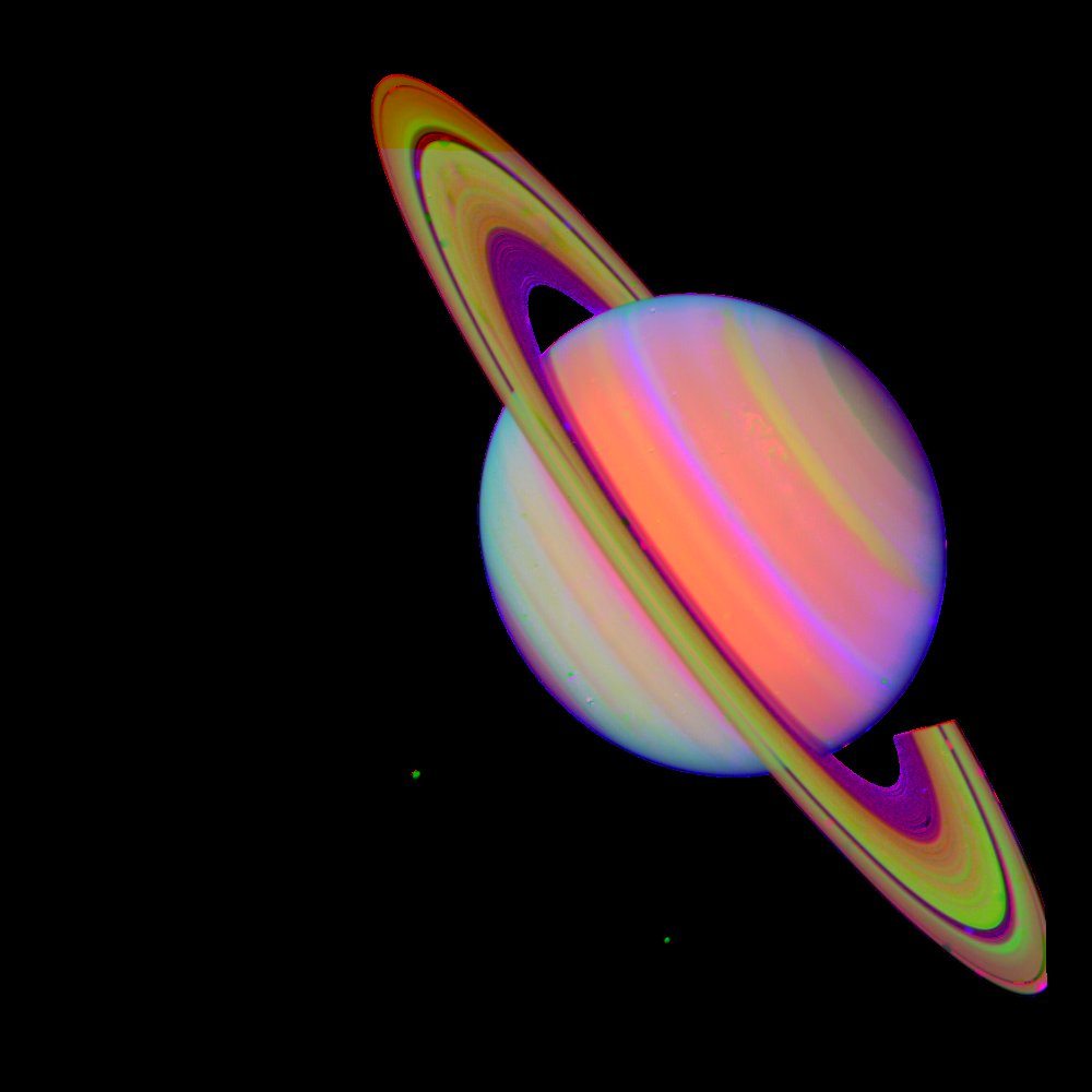 Saturn photographed by Voyager 2 (false color)